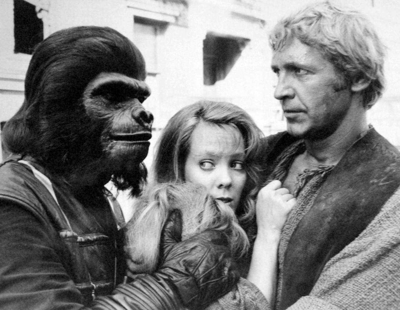 Photo from the short-lived television program Planet of the Apes. In the photo from left: Wayne Foster (gorilla sergeant), guest star Zina Bethune, and series regular Ron Harper (Alan Virdon).